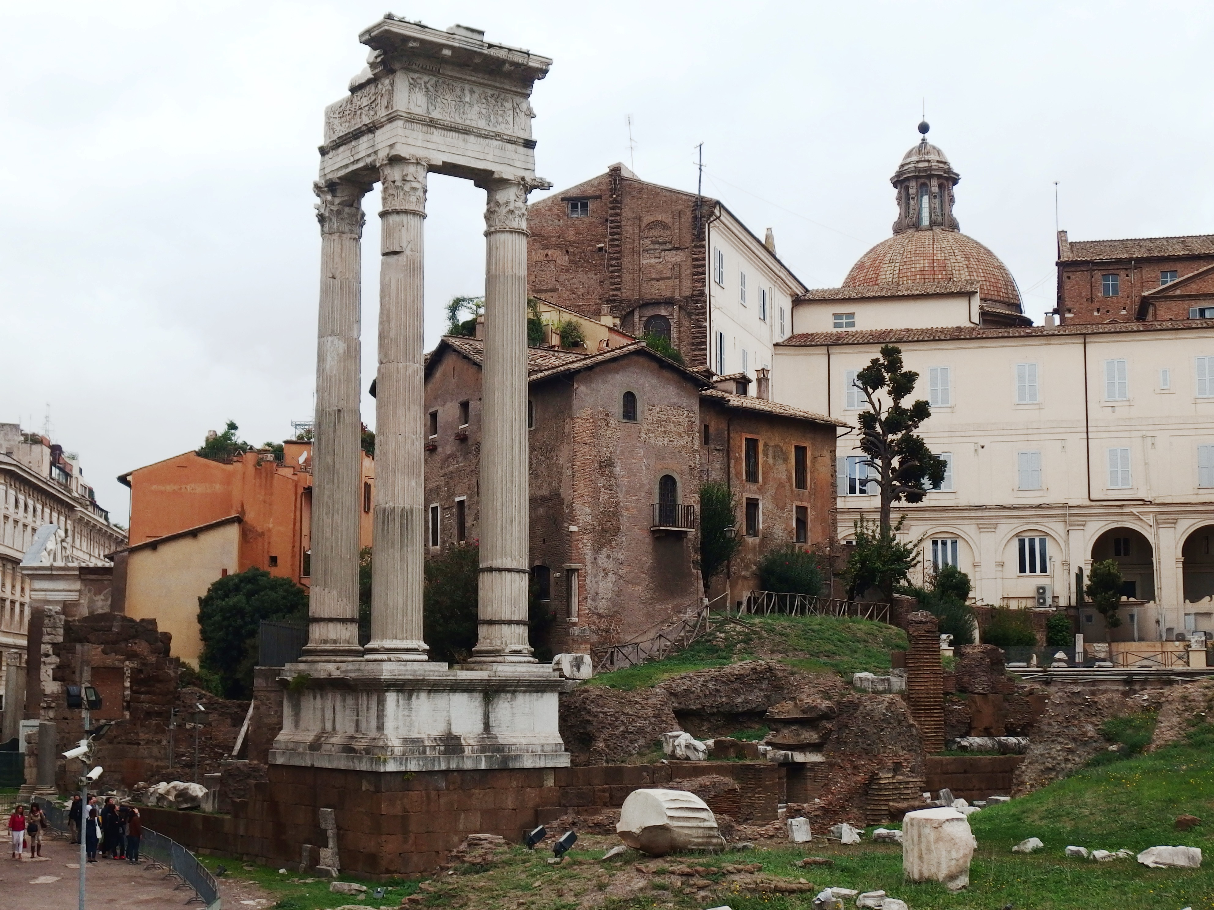 Rome, Italy.